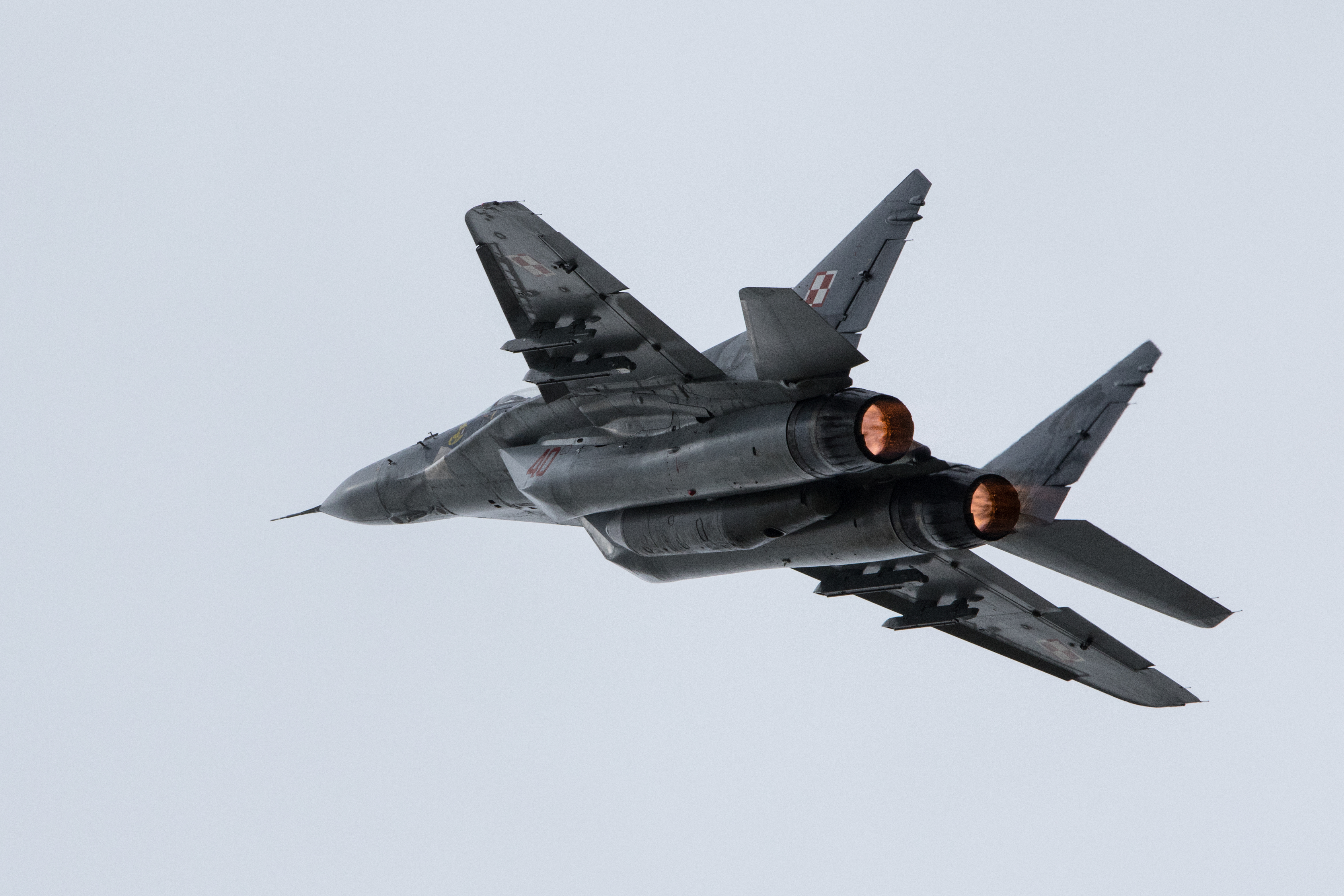 Polish Mig29 at The Royal International Air Tattoo 2015